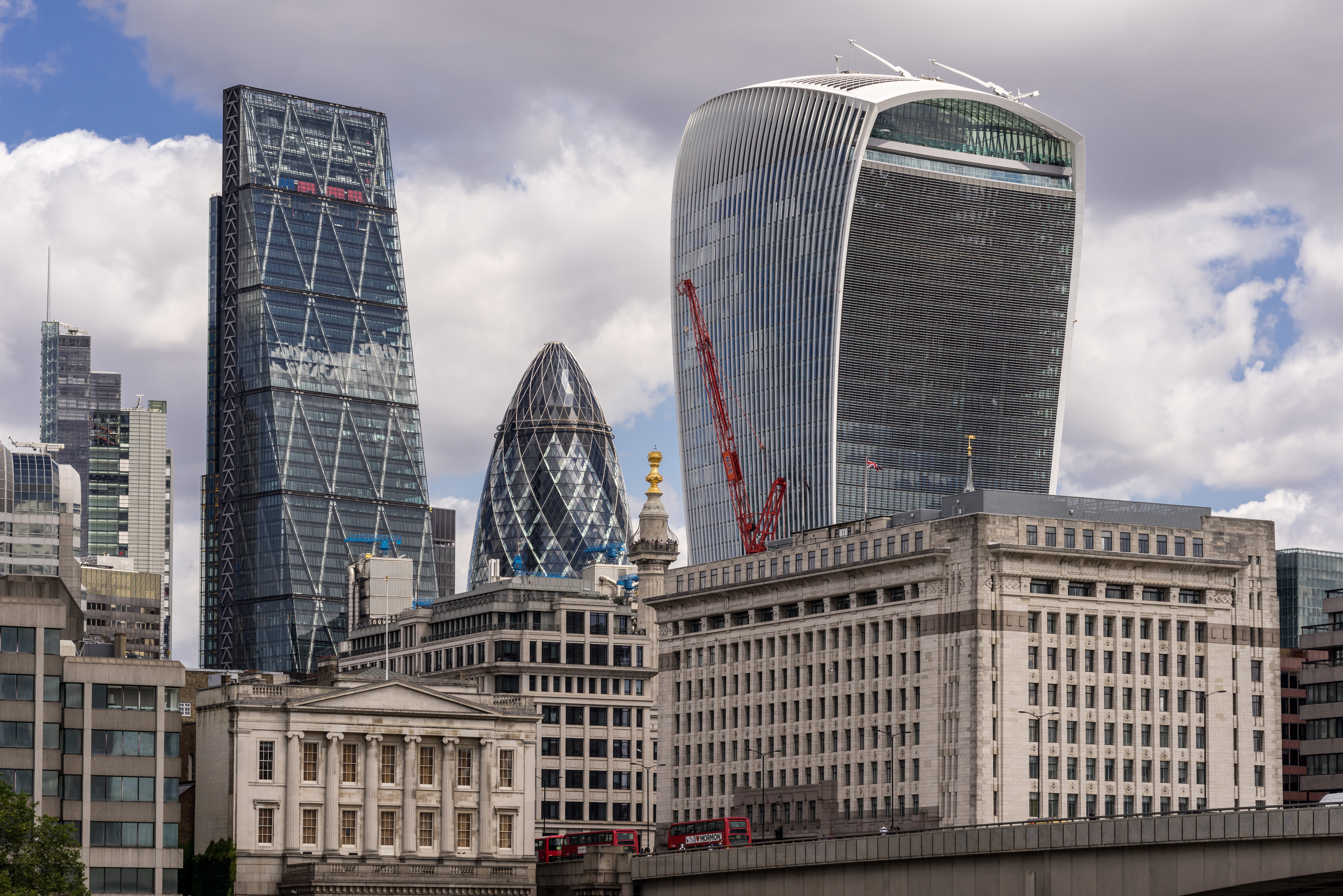 City